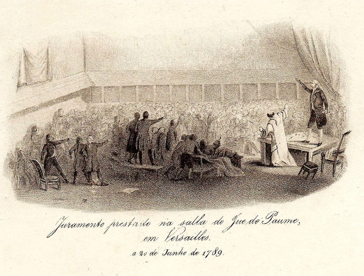 Bailly a Versailles